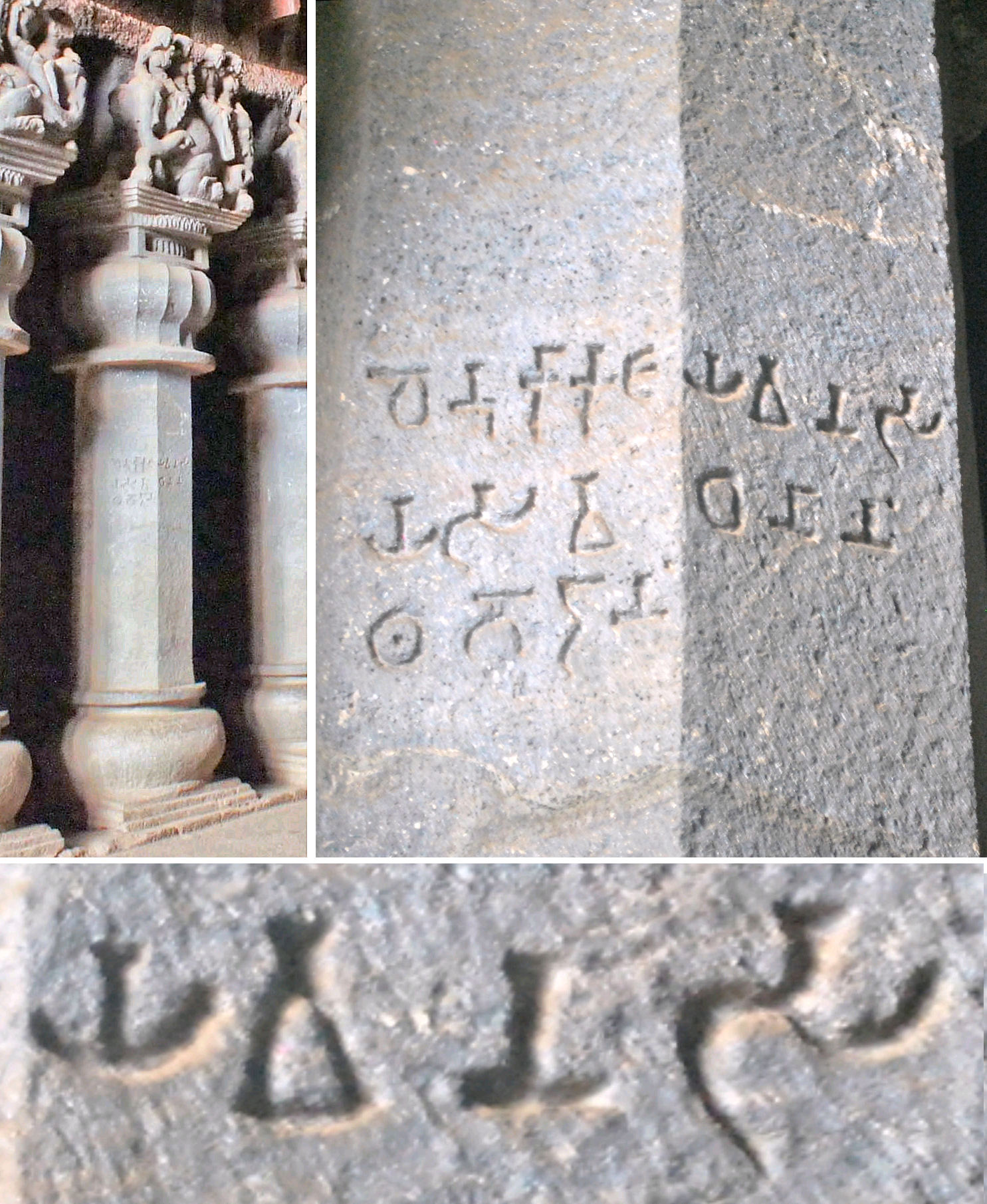 yasavadhanānaṃ